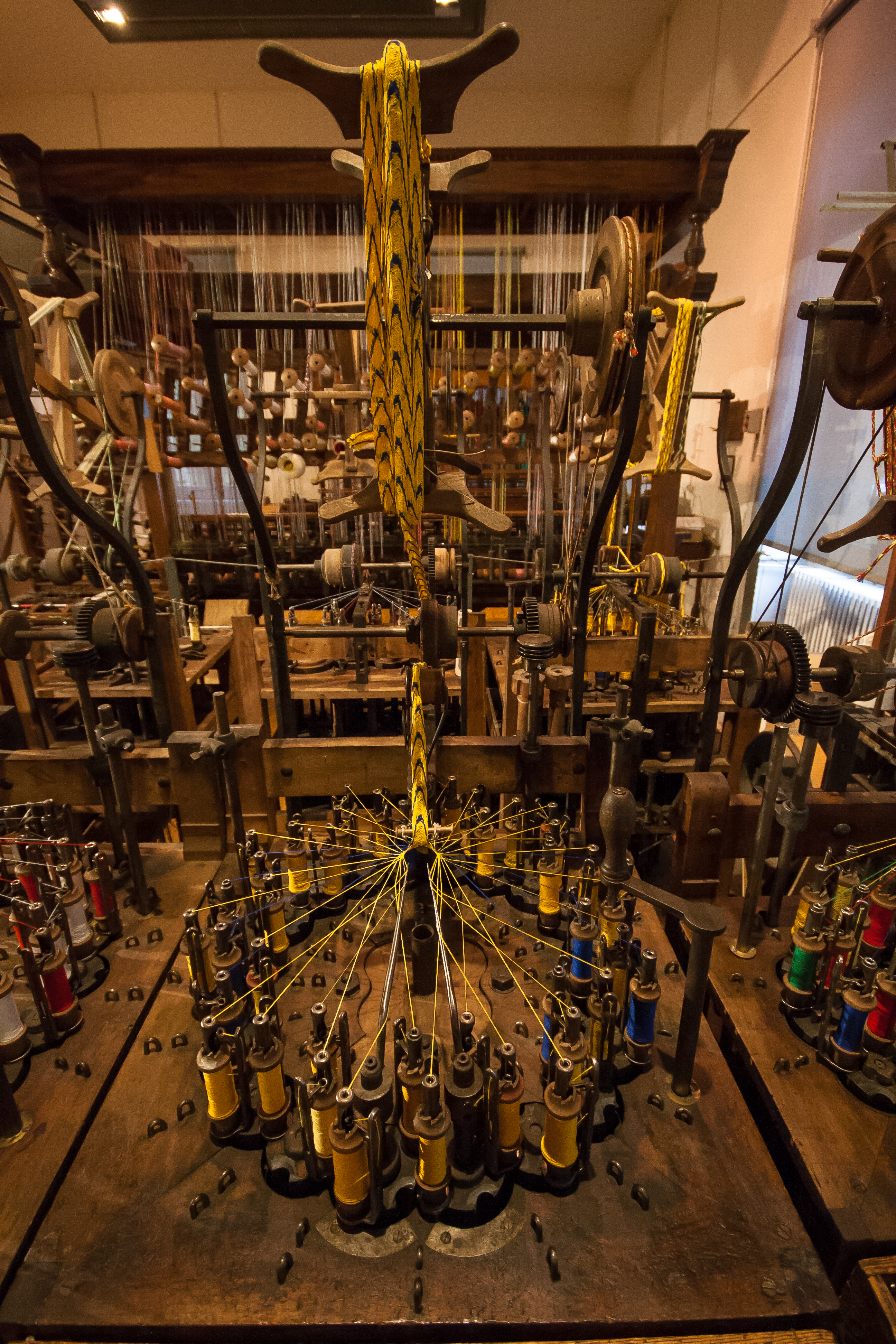 Braiding machine or machine Perrault. Overview. You can see the lace made up.